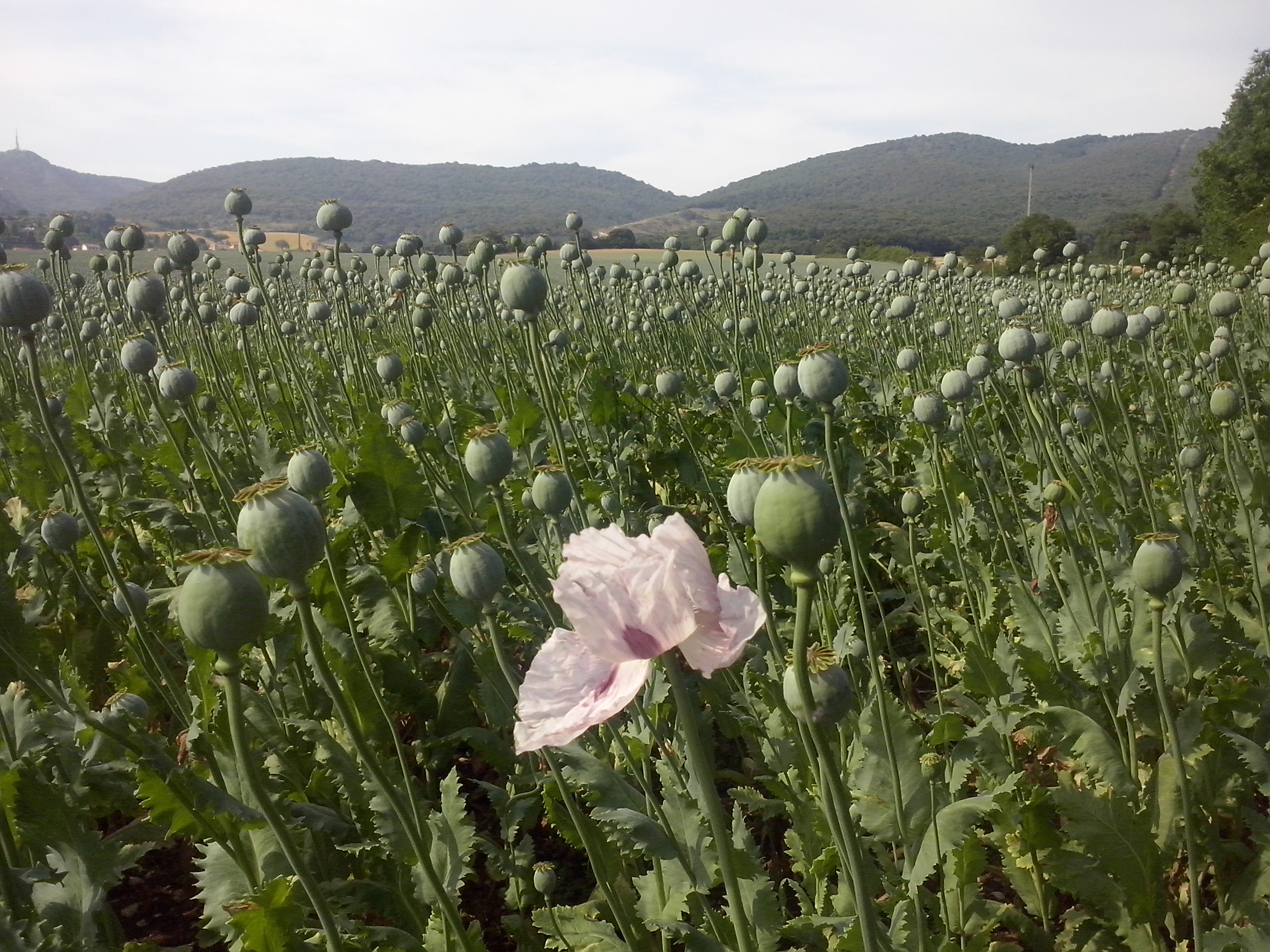 Papaver somniferum in Trevino (Basque Country, Spain)